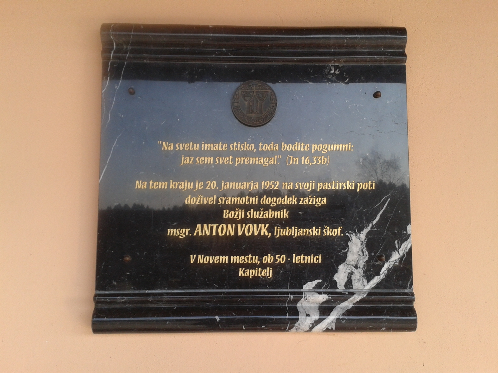 The memorial plaque at the place where the Bishop Anton Vovk was doused with gasoline and set alight by secret police agents in 1952. Novo Mesto Train Station, southeastern Slovenia.The text reads:" 'The world will make you suffer. But be brave! I have defeated the world! Jn16:33b'On 20 January 1952, the Servant of God msgr. Anton Vovk, the Bishop of Ljubljana, experienced the shameful event of being set burning.In Novo Mesto, on the 50th anniversary. The Collegiate Chapter."